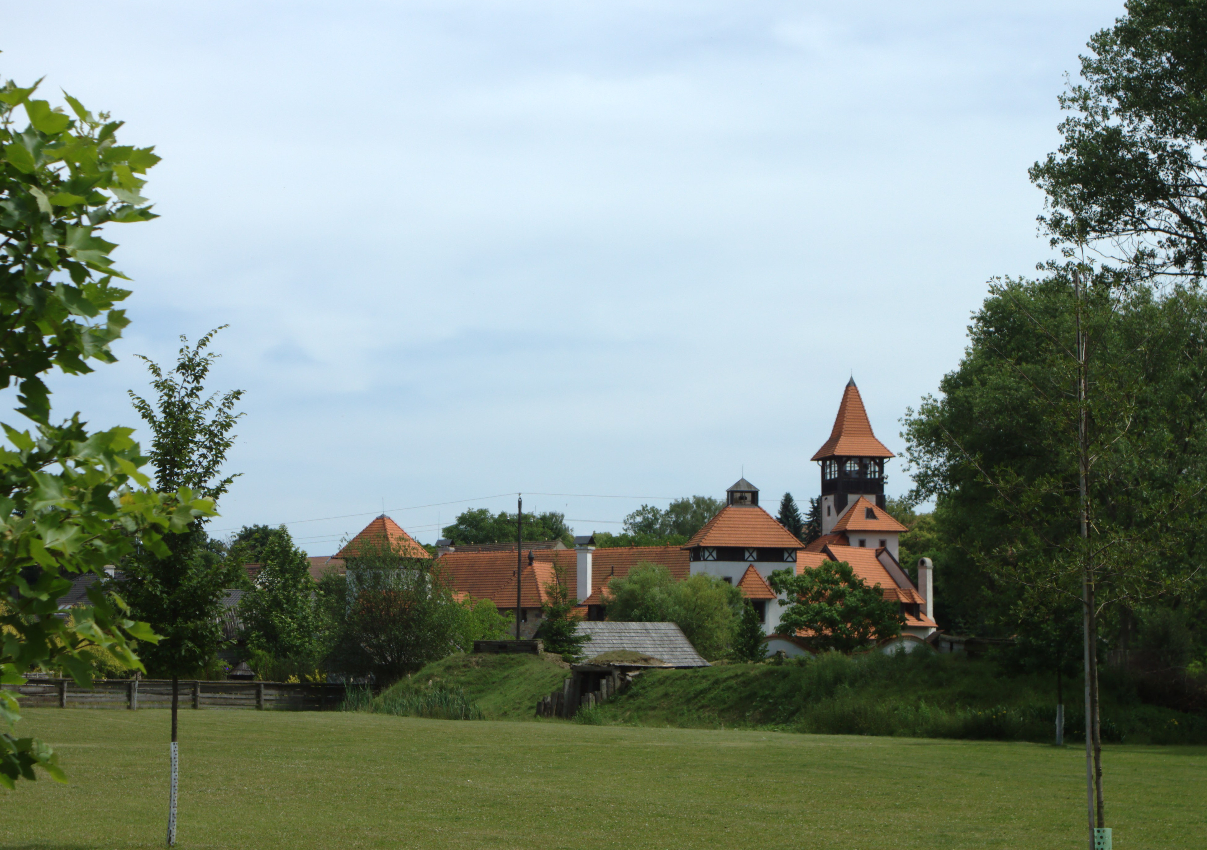 Červený Újezd Castle, Central Bohemian Region, CZ Project: Fotíme Česko